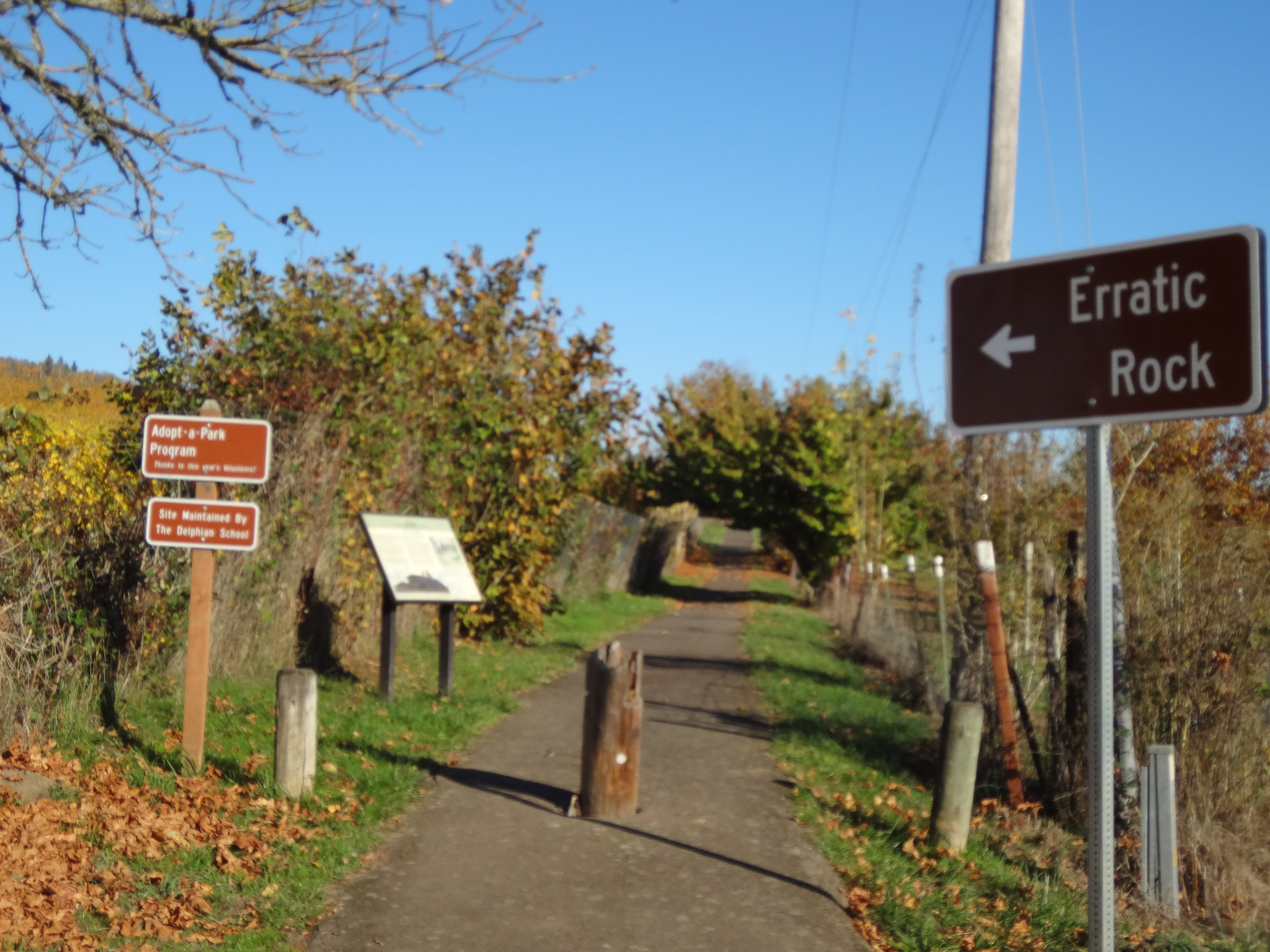 This is an additional photo of the Erratic Rock trail to help clarify and assist with updated information.